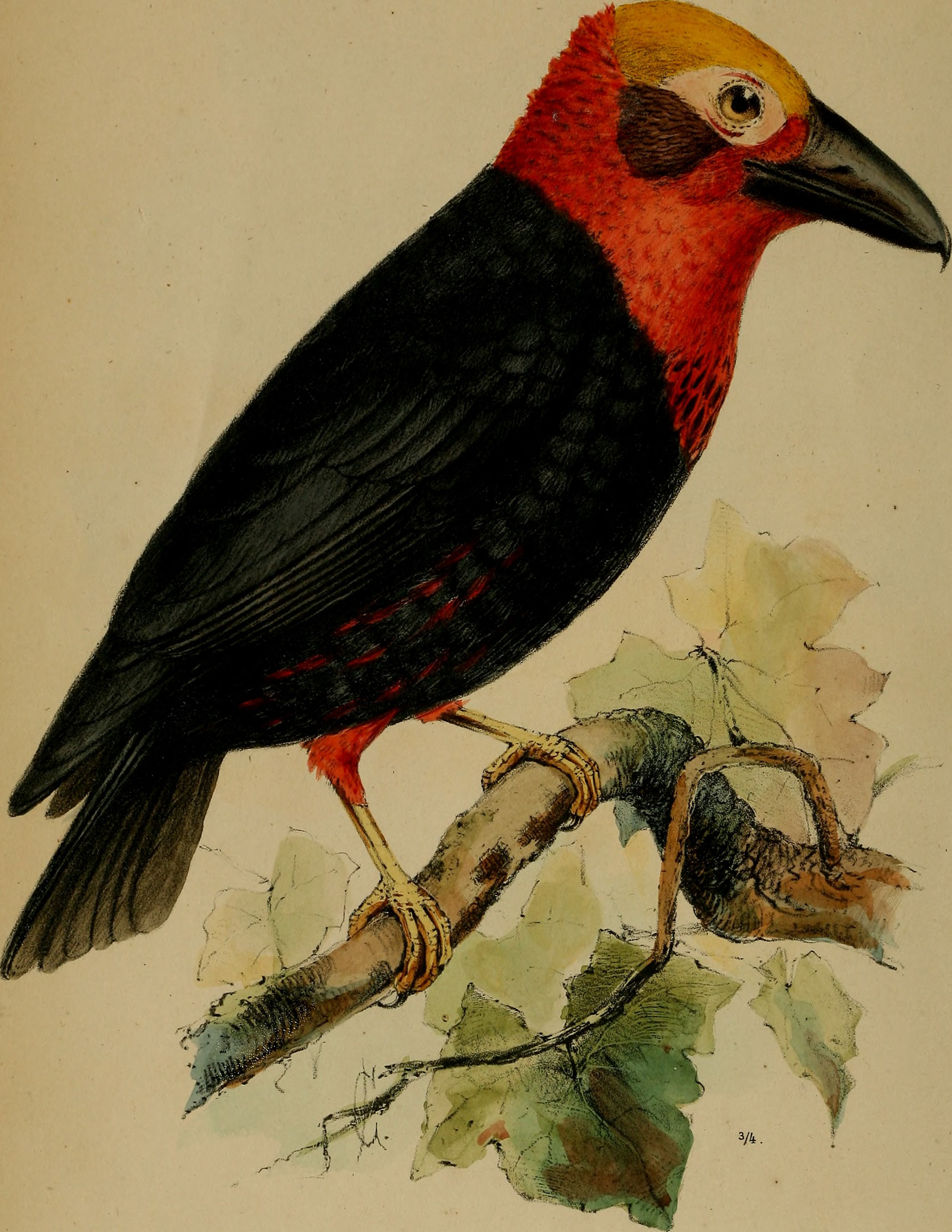 Title: Annali del Museo civico di storia naturale di Genova Year: 1870 (1870s) Authors: Museo civico di storia naturale di Genova (Italy) Subjects: Natural history Publisher: Genova : Tip. del R. Istituto Sordo-Muti Text Appearing Before Image: ' Text Appearing After Image: PITYRIASIS GYMNOCEPHALA ?